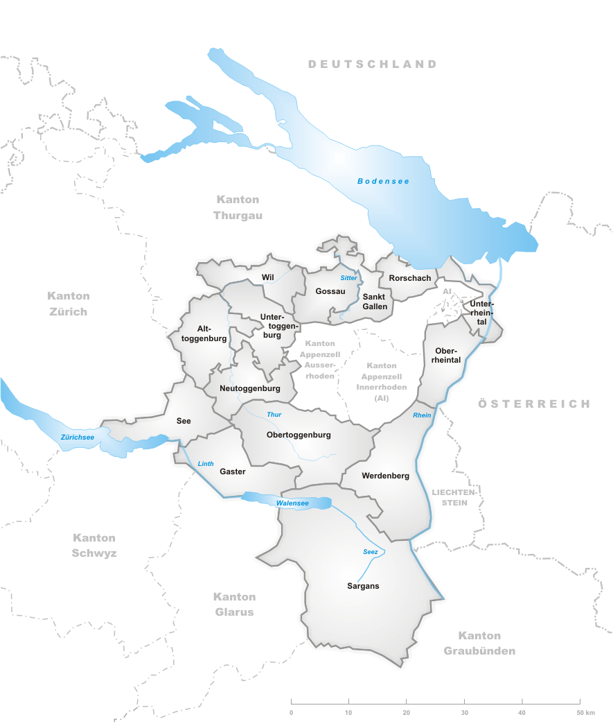 Districts of Canton St. Gallen 1831–2002